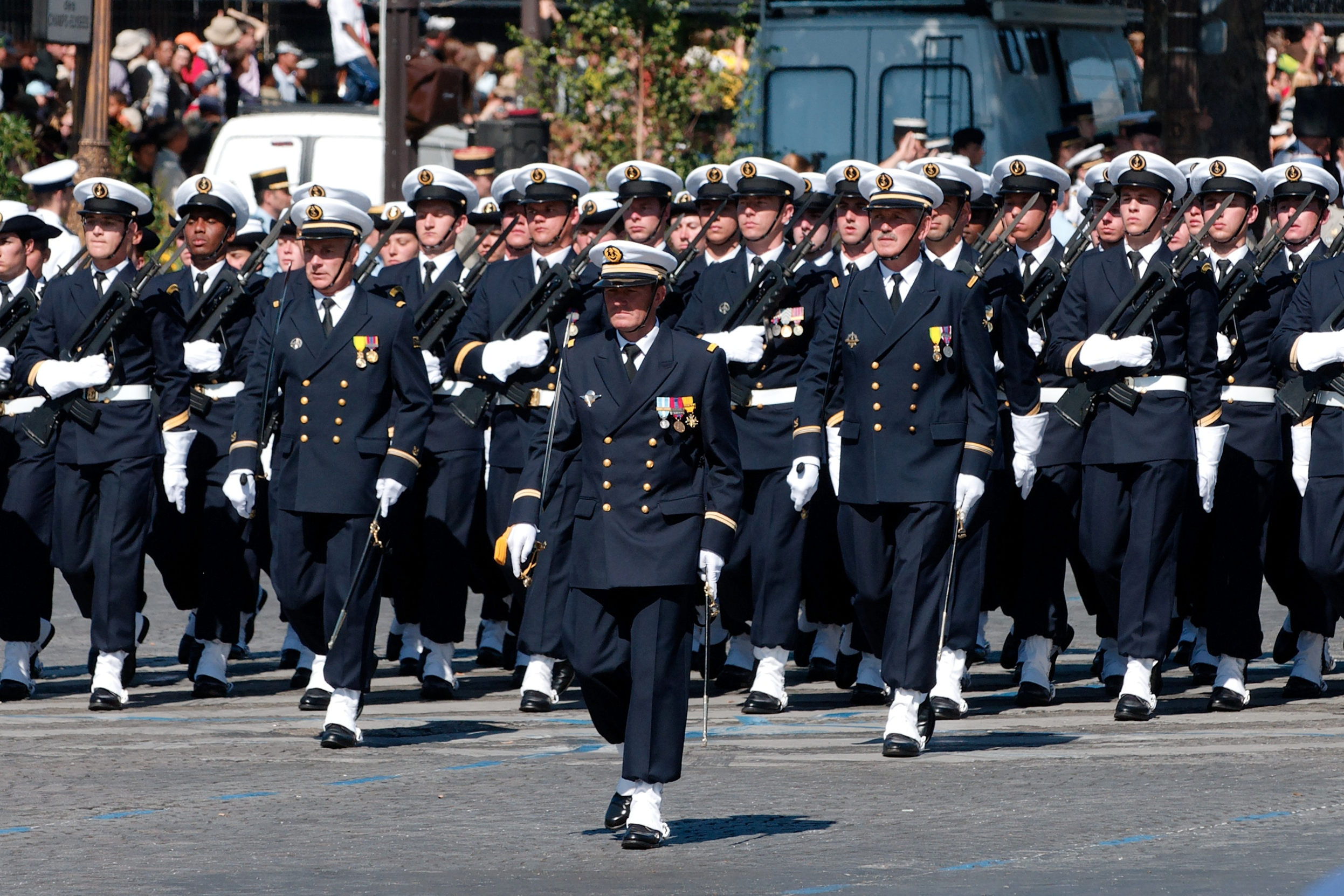 Trainees of the École de maistrance, Bastille Day 2008 military parade on the Champs-Élysées, Paris.